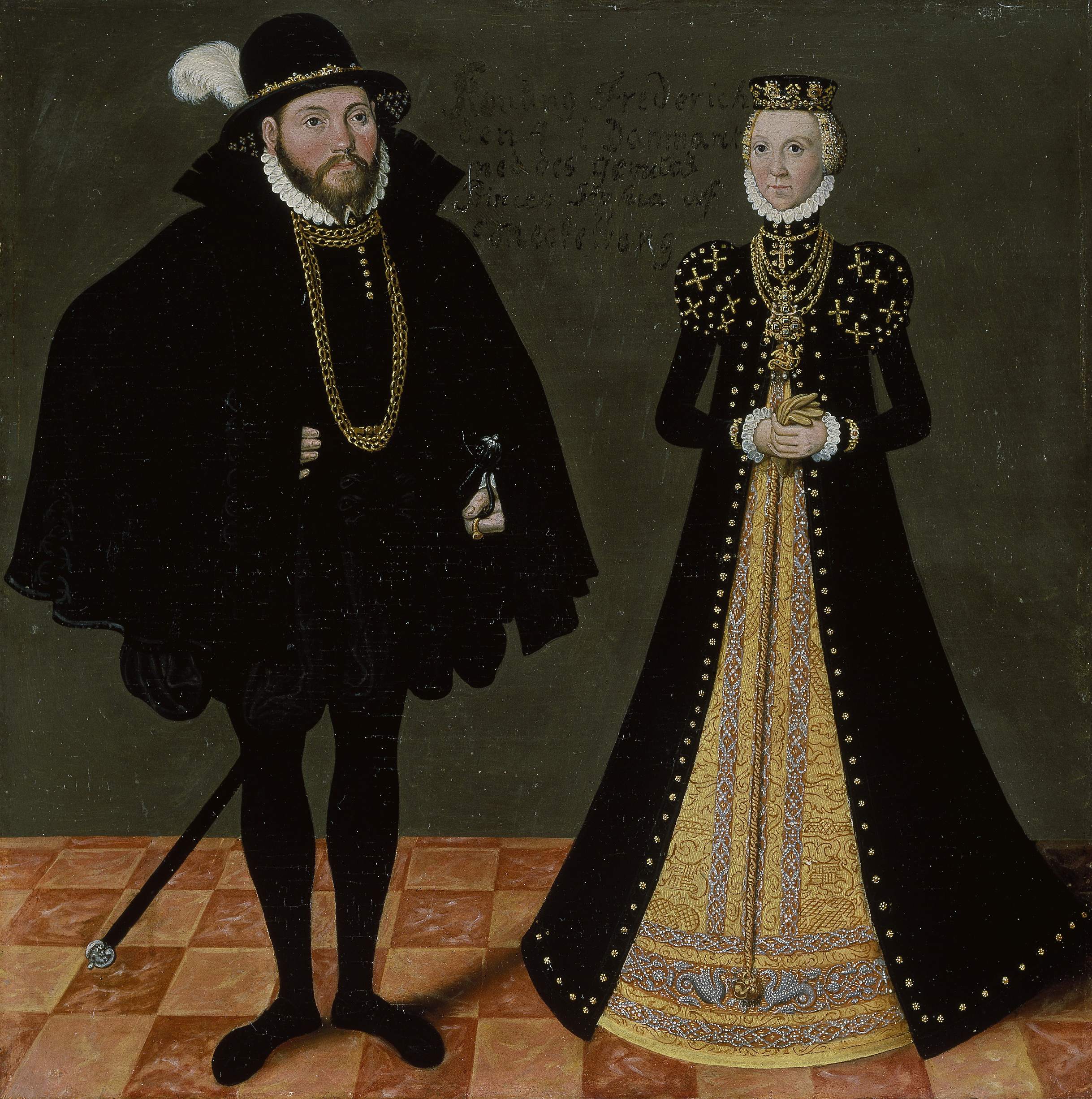 Lucas Cranach jr. (1515-1586), portrait of Frederick II of Denmark and Sophie of Mecklenburg, Queen of Denmark